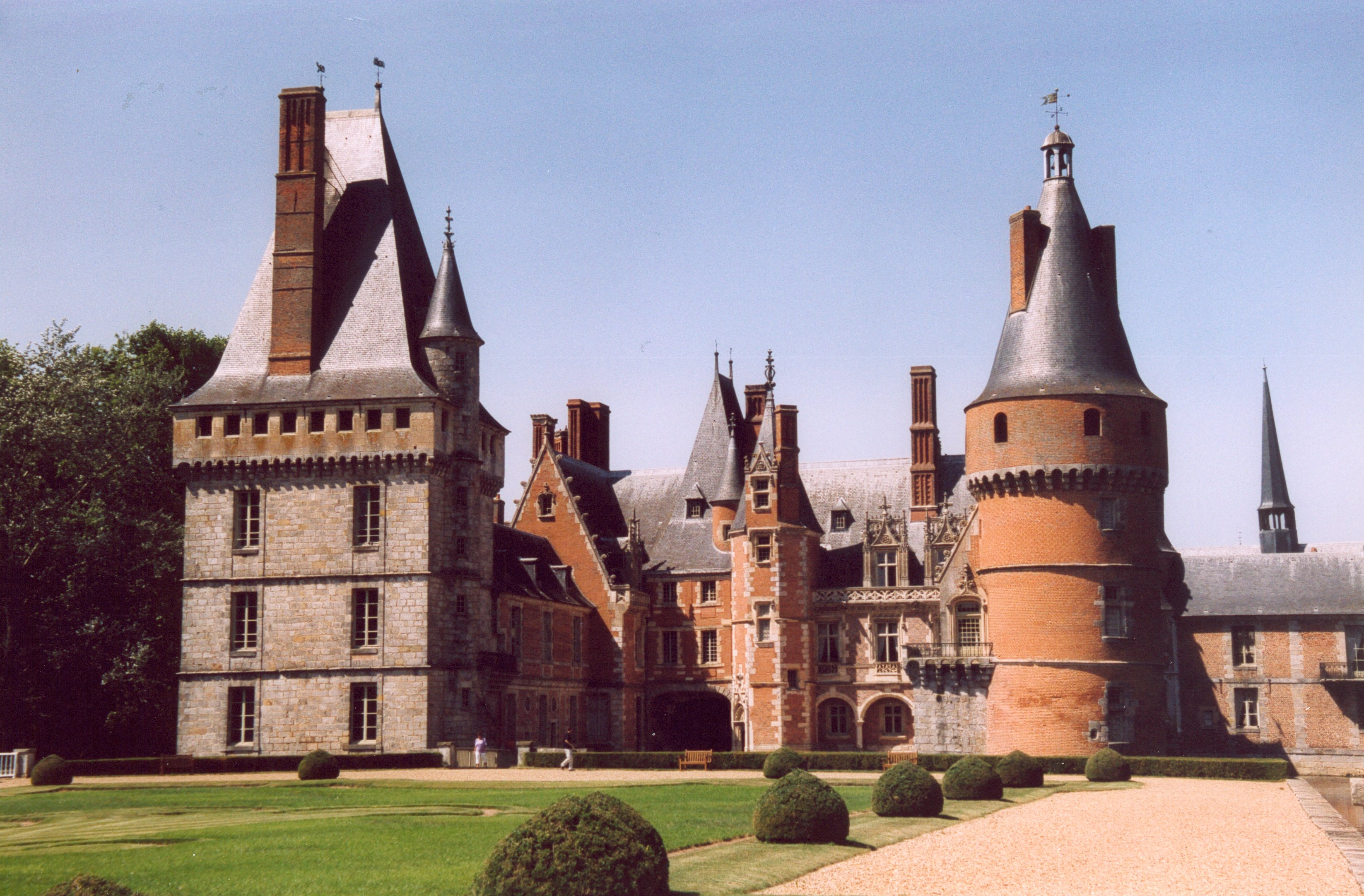 The castle of Maintenon, Eure-et-Loir (France). Photographie prise par GIRAUD Patrick